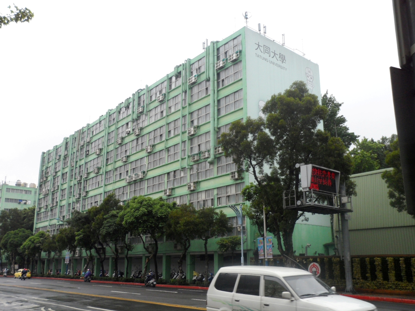 Tatung University, Zhongshan District, Taipei City, Taiwan